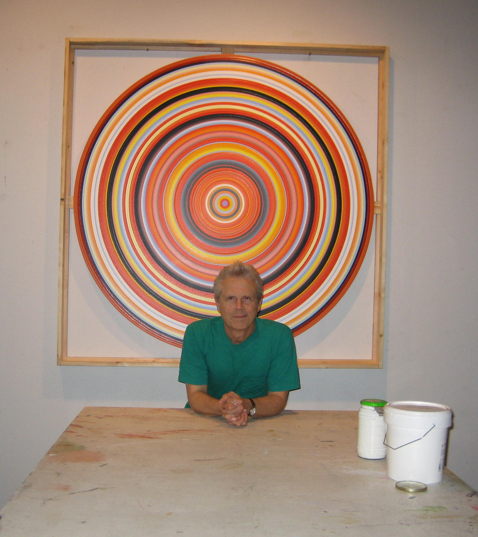 Photo of Don Suggs in his Los Angeles Studio, February 2007. Photo taken by Meg Linton, Director of the Ben Maltz Gallery at Otis College of Art and Design, with the artist's permission. Tag: GFDL-self, the uploader - the Ben Maltz Gallery - holds the rights to the photo.